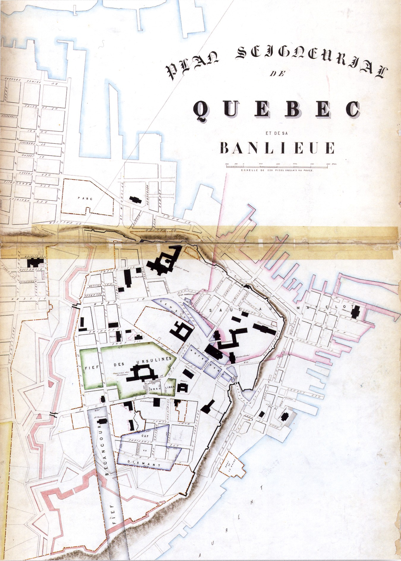 Part of the document Plan seigneurial de Québec et de sa banlieue